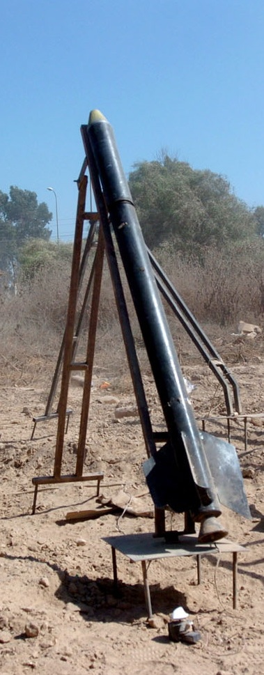 Excerpt of File:Flickr - Israel Defense Forces - Eight Qassam Launchers in Gaza.jpg